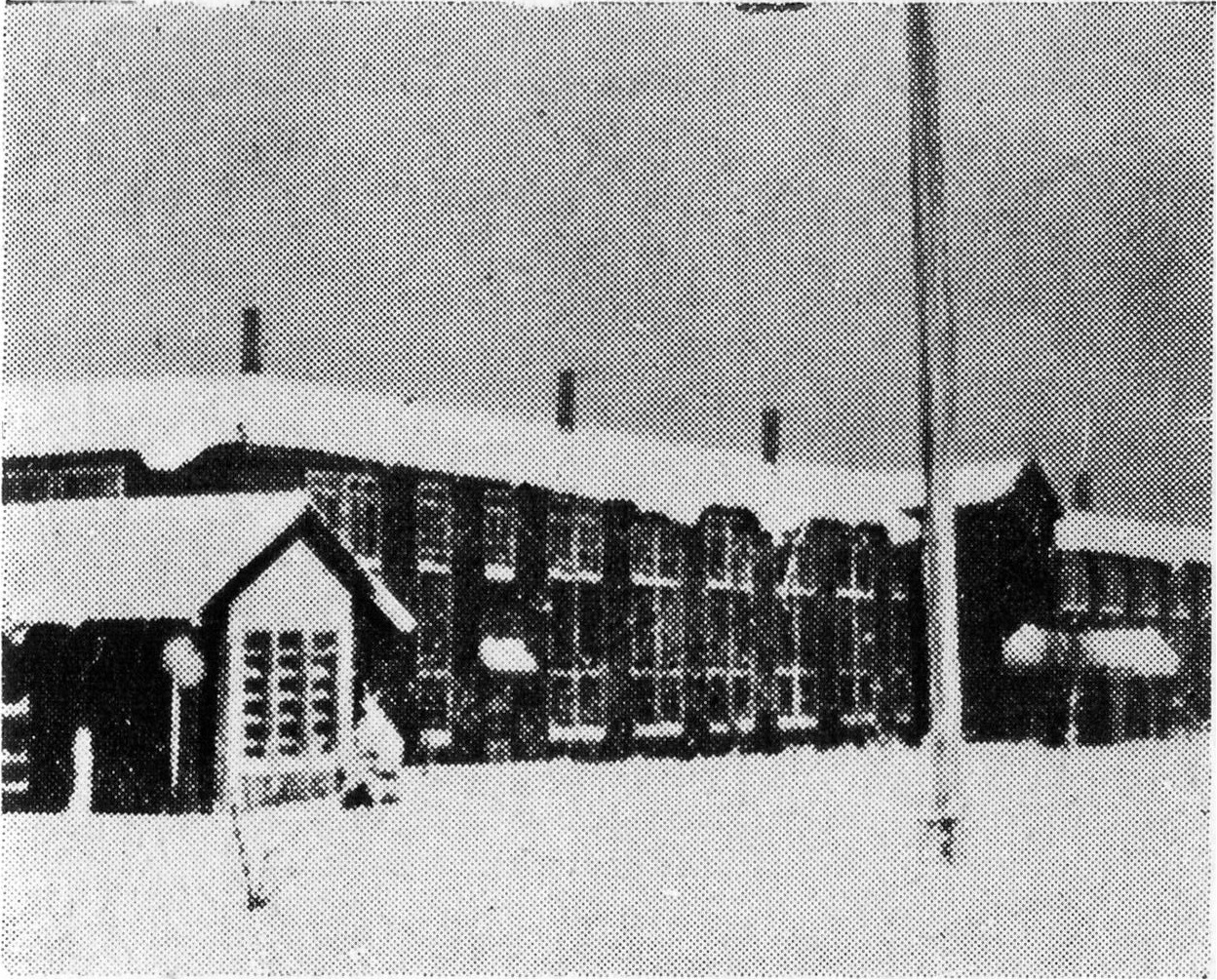 Karafuto Normal School (existed in 1939 - 1945) in Toyohara, Karafuto.